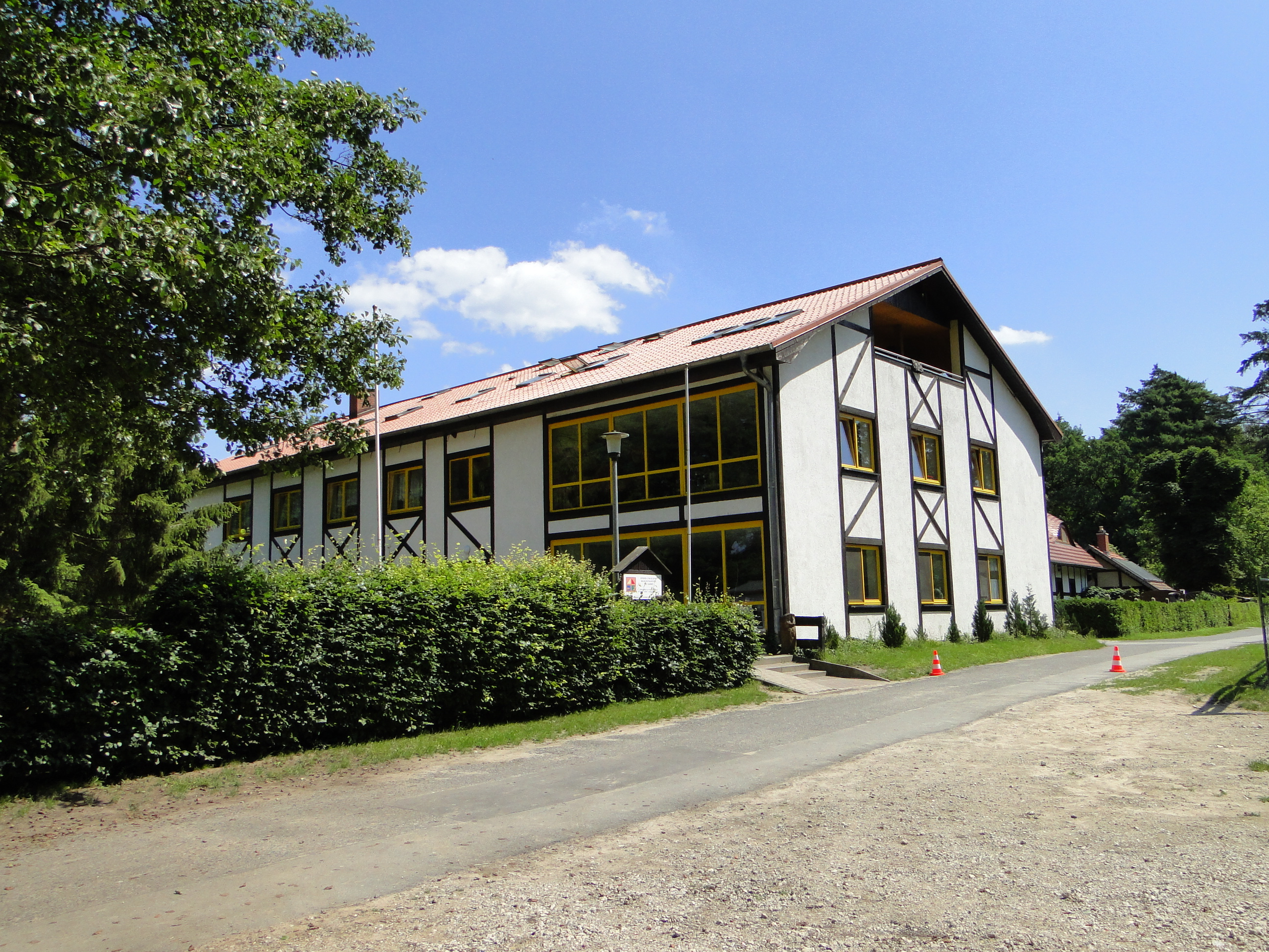 Meeting centre for kids and youth in Neu Sammit, district Güstrow, Mecklenburg-Vorpommern, Germany